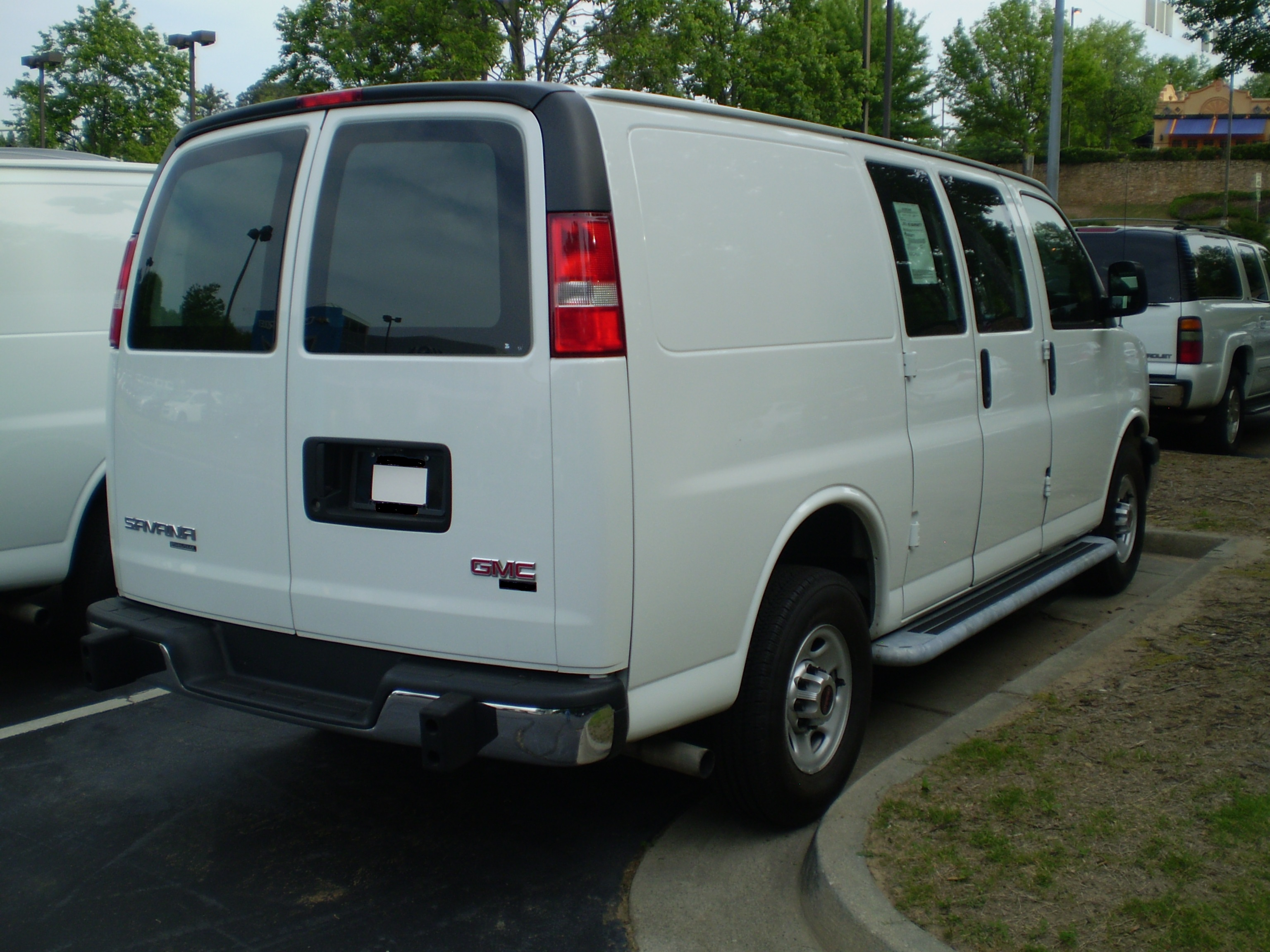 2014 GMC Savana 2500 Cargo Van (Reverse) Final Assembly Location: Detroit, Michigan, USA Verified by VIN information.